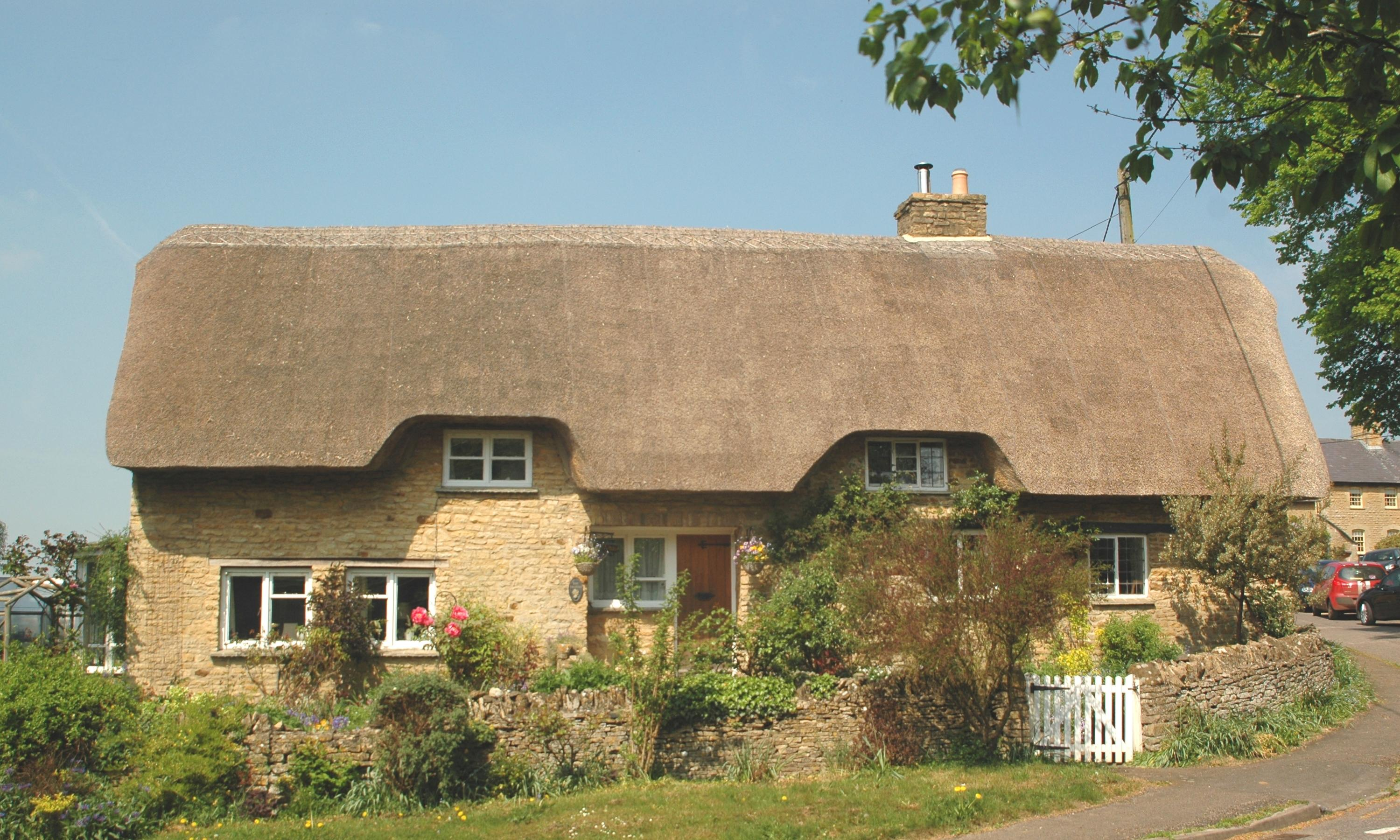 The Thatch, Church Enstone, Oxfordshire